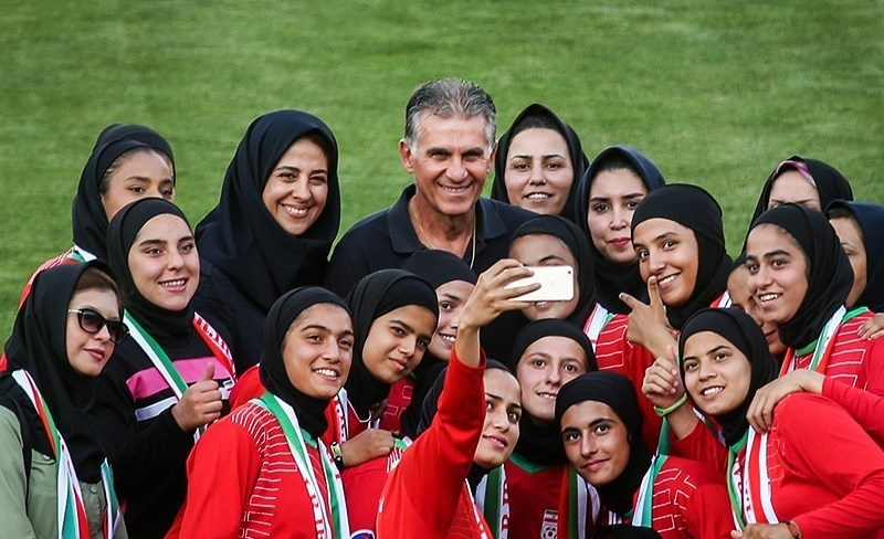 Iran national football team training